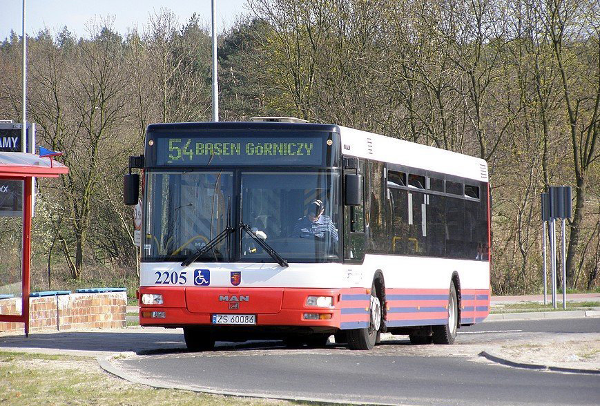 MAN NL223 (#2205) bus owned by SPA Dąbie in Szczecin, Poland. Built 2002. SPA Dąbie company.